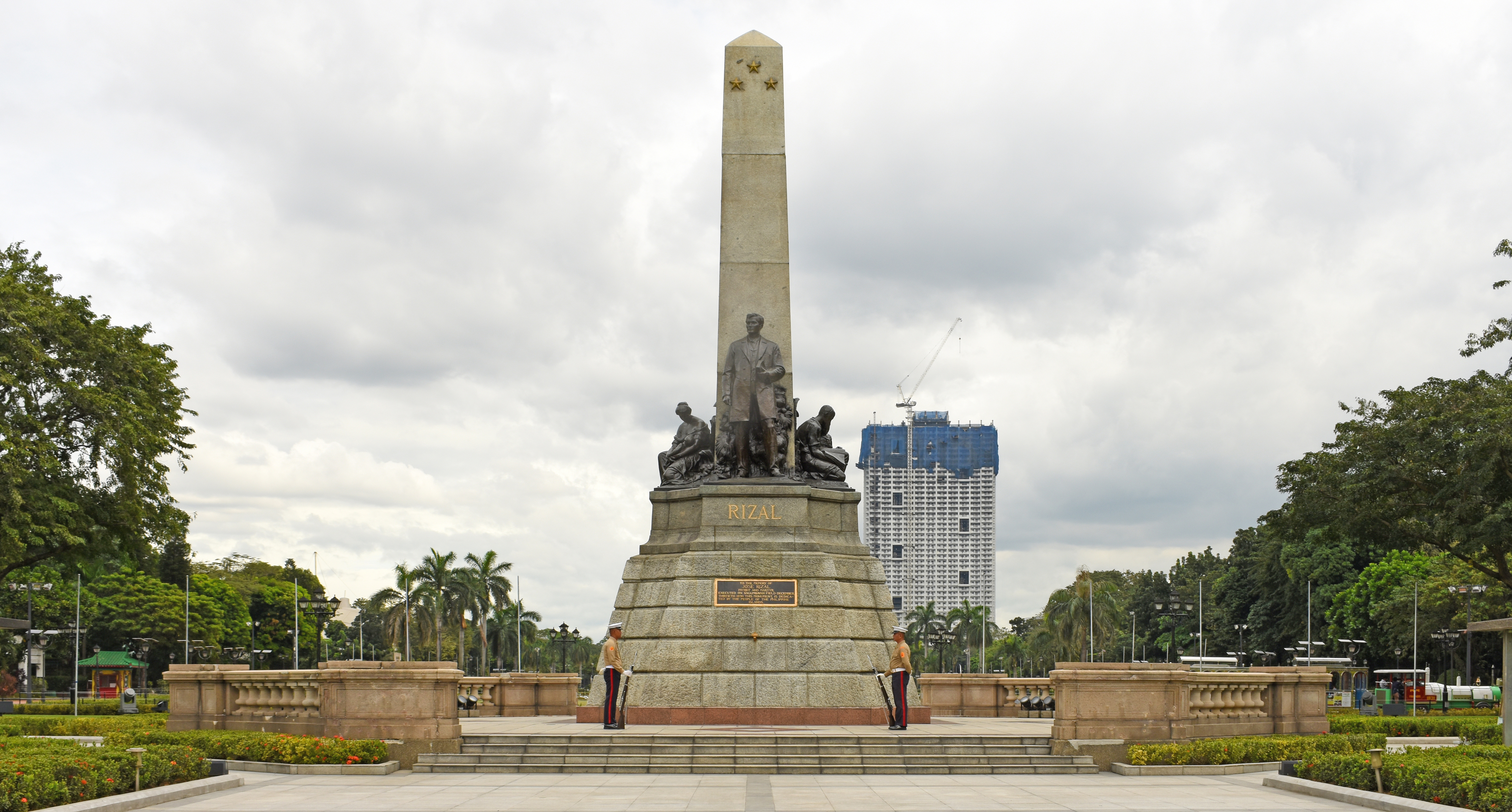 Jose Rizal National Monument - 1913 Act No. 243 granted the use of the public land in Luneta as a site for the Jose Rizal Monument, 28 September, 1901. The Monument, entitled "Motto Stella", was the entry of Swiss Sculptor Richard Kissling to the International Design Contest for the Rizal Monument, 1905-1907. The Monument was constructed of bronze and granite, 1912. The remains of Rizal were transferred from Binondo to the base of the Monument, 30 December, 1912, Unveiled, 30 December, 1913. Declared a National Monument, 15 April, 2013 and National Cultural Treasure, 14 November, 2013.